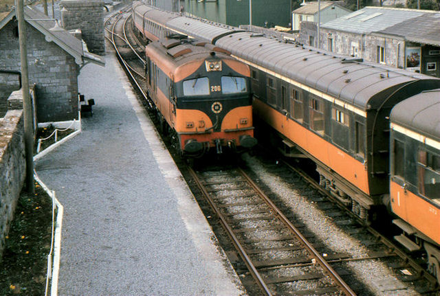 Train, Boyle station. Locomotive no 206 had arrived at Boyle with a train of empty stock and was in the process of running round to work a bank holiday relief back to Dublin Pearse. The coach on the right (no 2172) was one of three composites built in... more